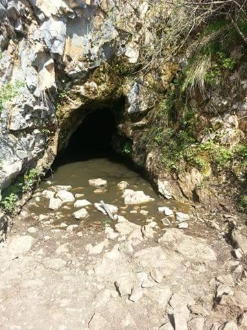 Foja cave,Macedonia